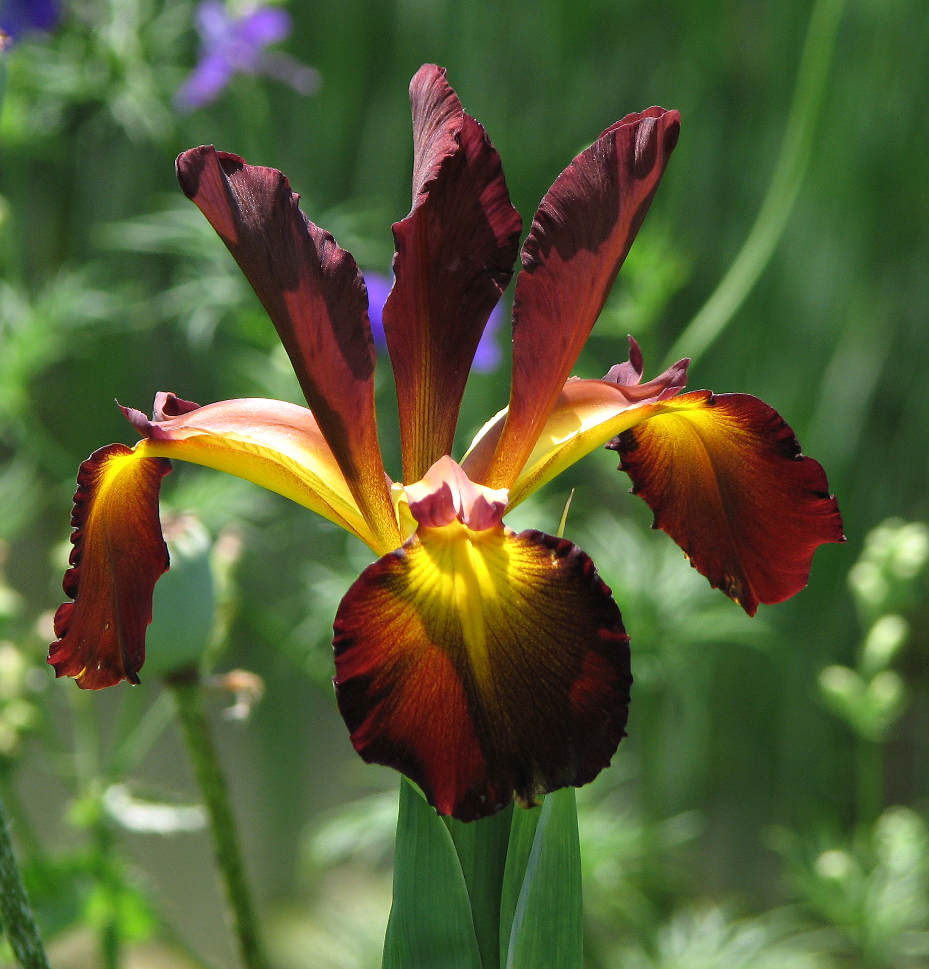 Picture of an Iris spuria en 'Cinnabar Red' flower. Photo taken in Bed #3 of the Pond Garden at the Chanticleer Garden. This is accession #1999-352-B according to the plant lists.